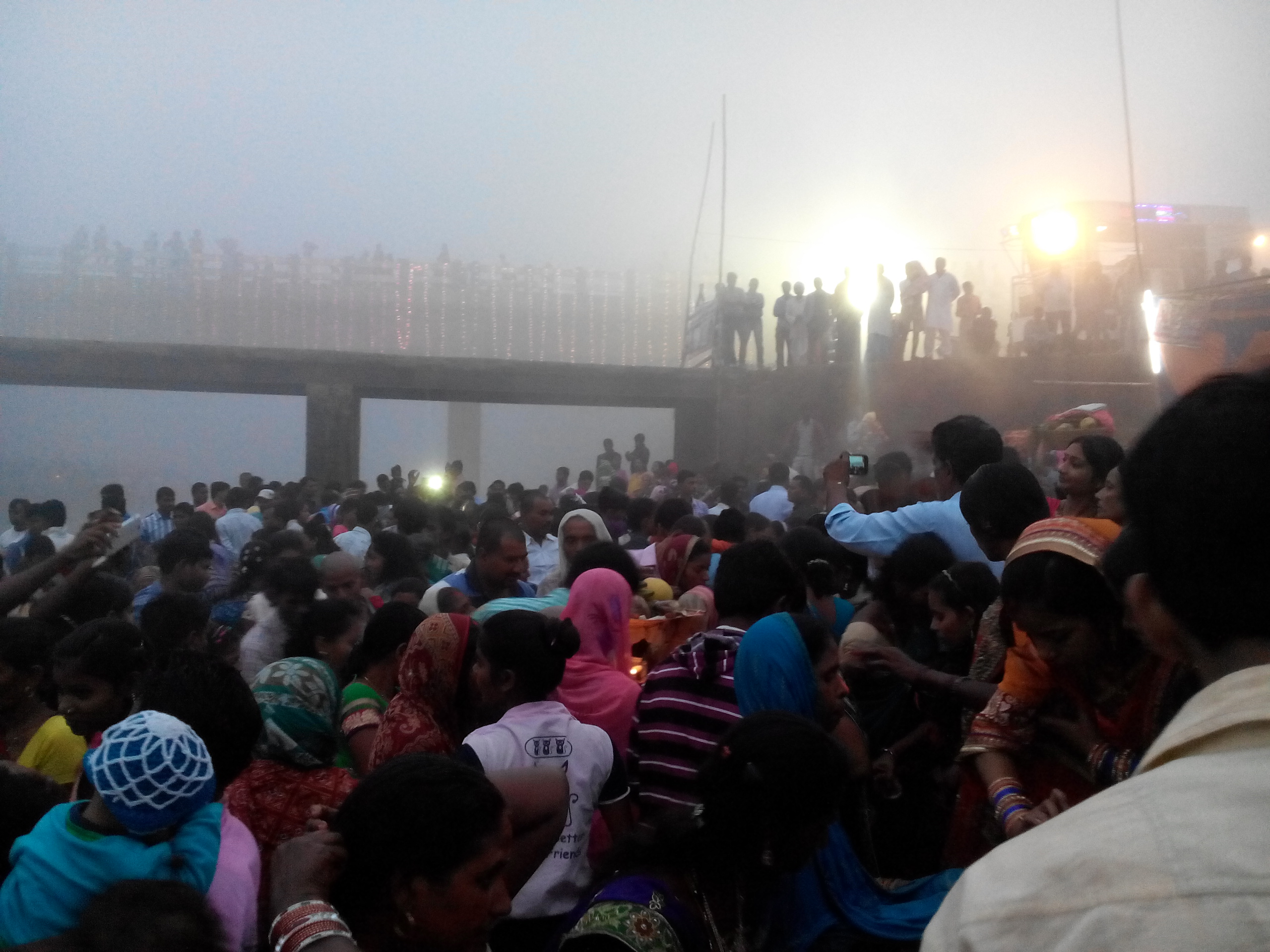 view of chhat puja of Harnaut, Harnaut, Bihar, India